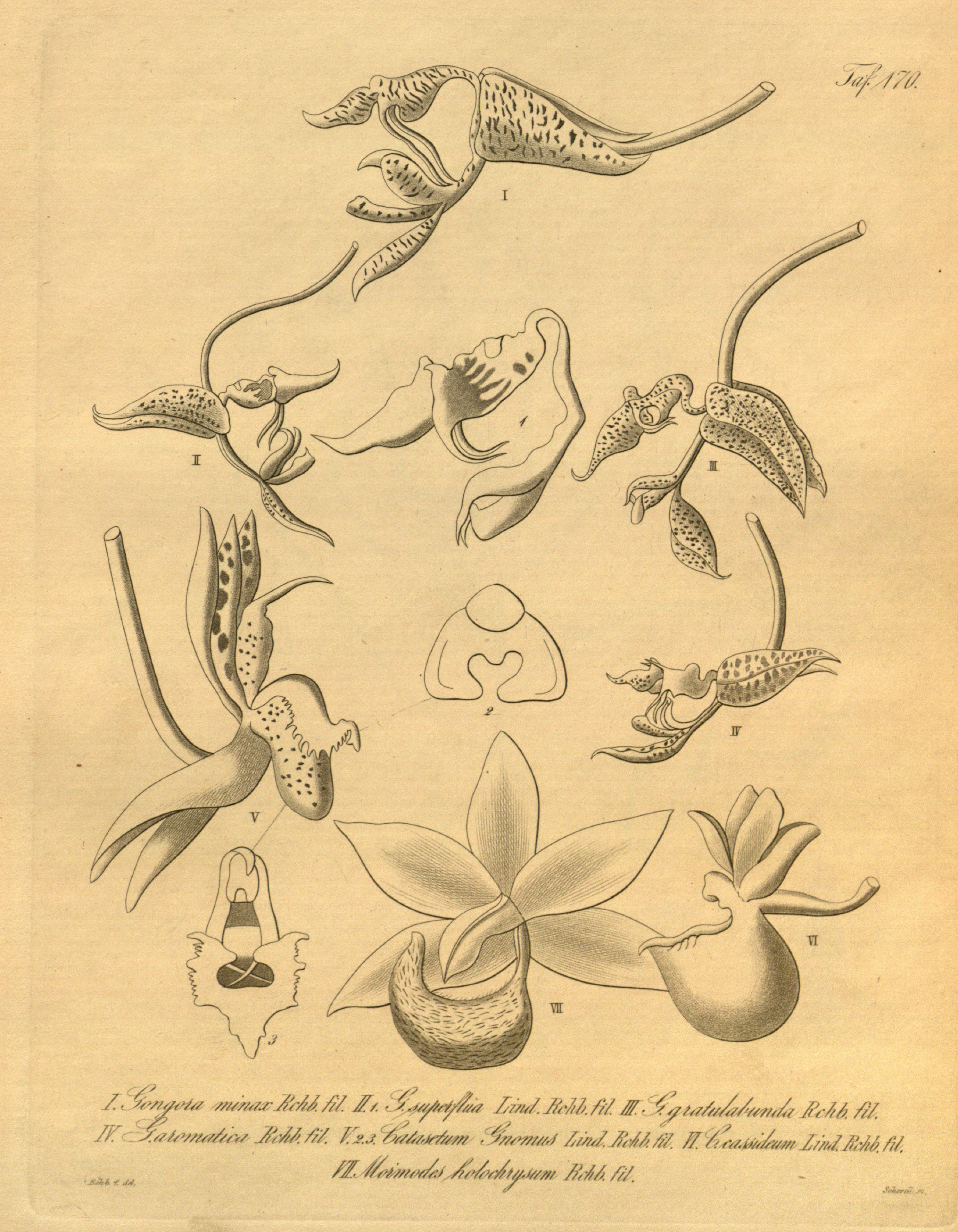 Illustration of I. Gongora minax II, 1. Gongora superflua III.Gongora gratulabunda IV. Gongora aromatica V, 2, 3.Catasetum gnomus VI.. Catasetum cassideum VII. Mormodes variabilis (as syn. Mormodes holochrysa, spelled by Reichenbach as Mormodes holochrysum)